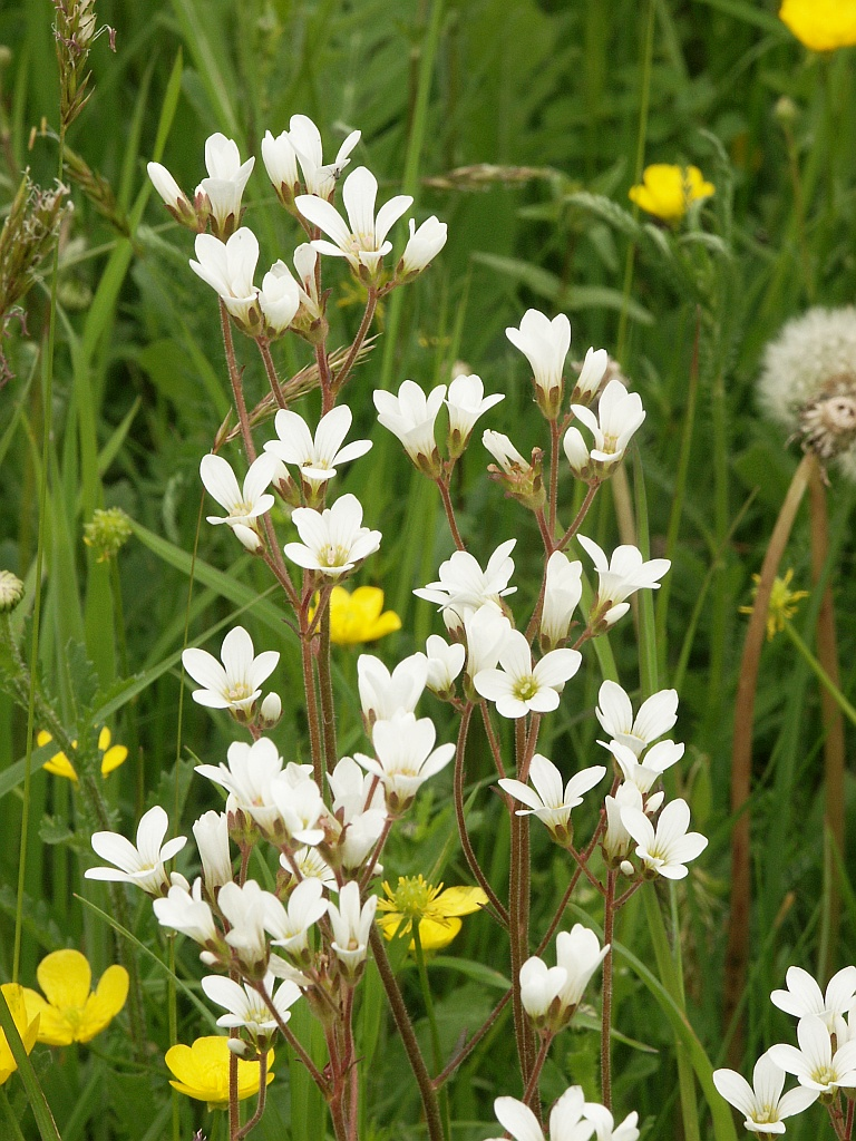 Saxifraga granulata, Hohenloher Land, Germany